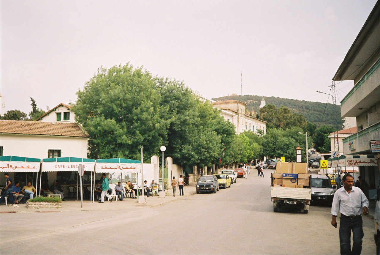 Ain Draham, northern Tunisia.